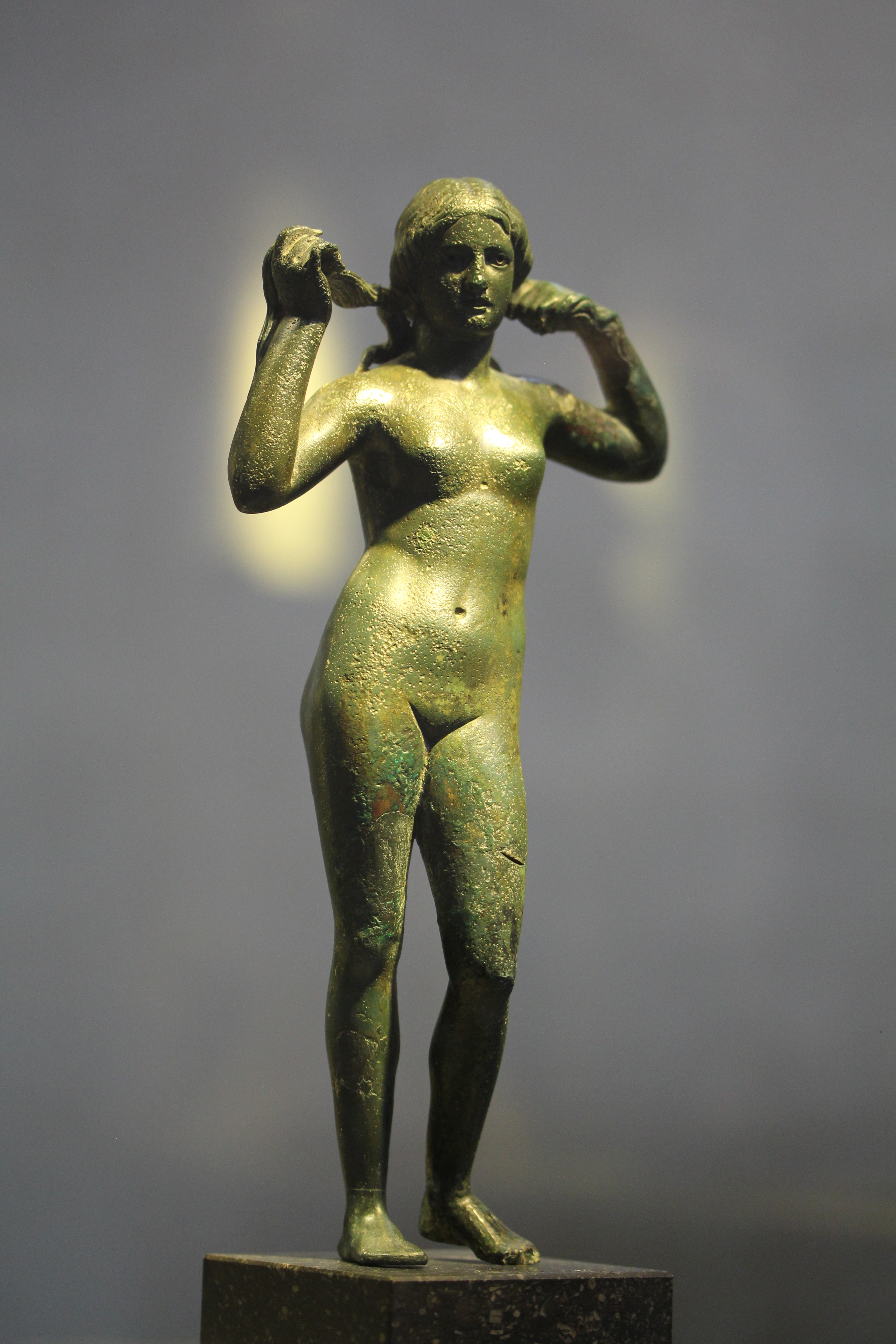 Vénus de Courtai statue in the Musée Royal de Mariemont, Belgium